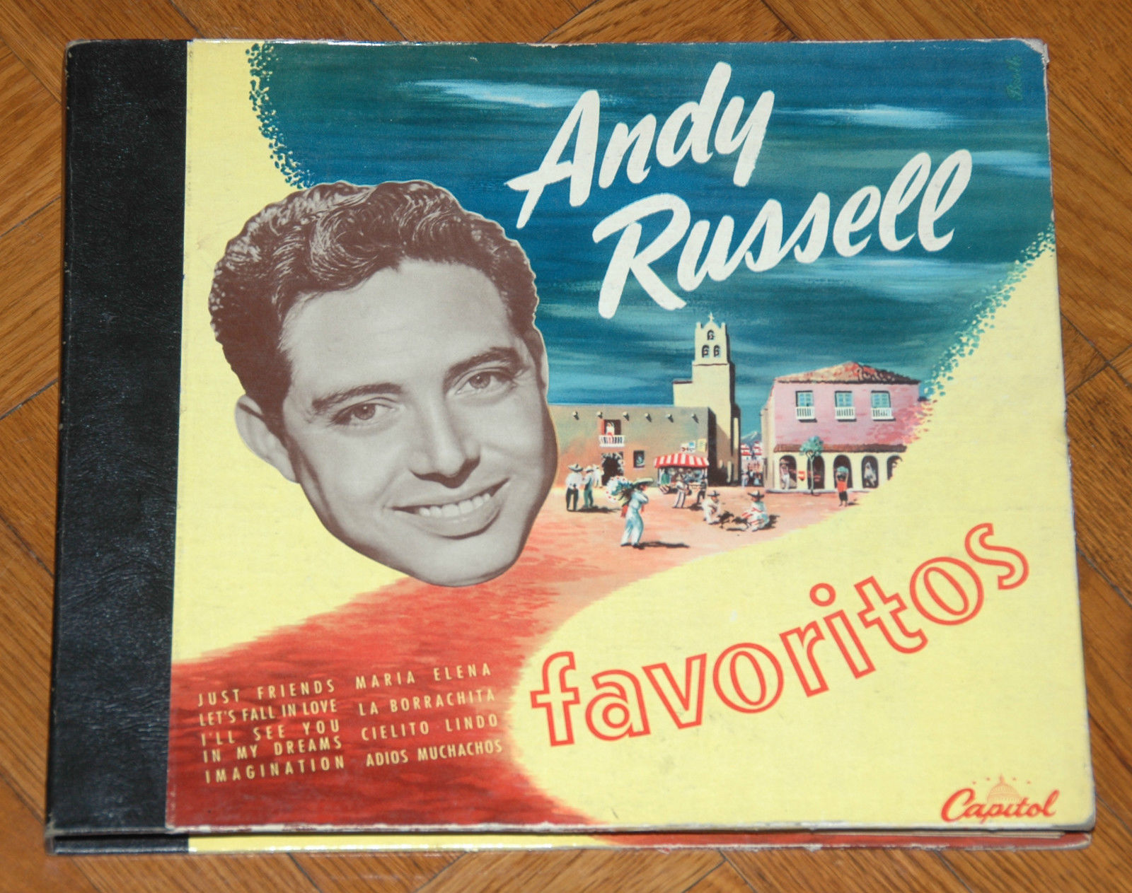 Andy Russell LP Favoritos (cover) by Capitol Records, 1943